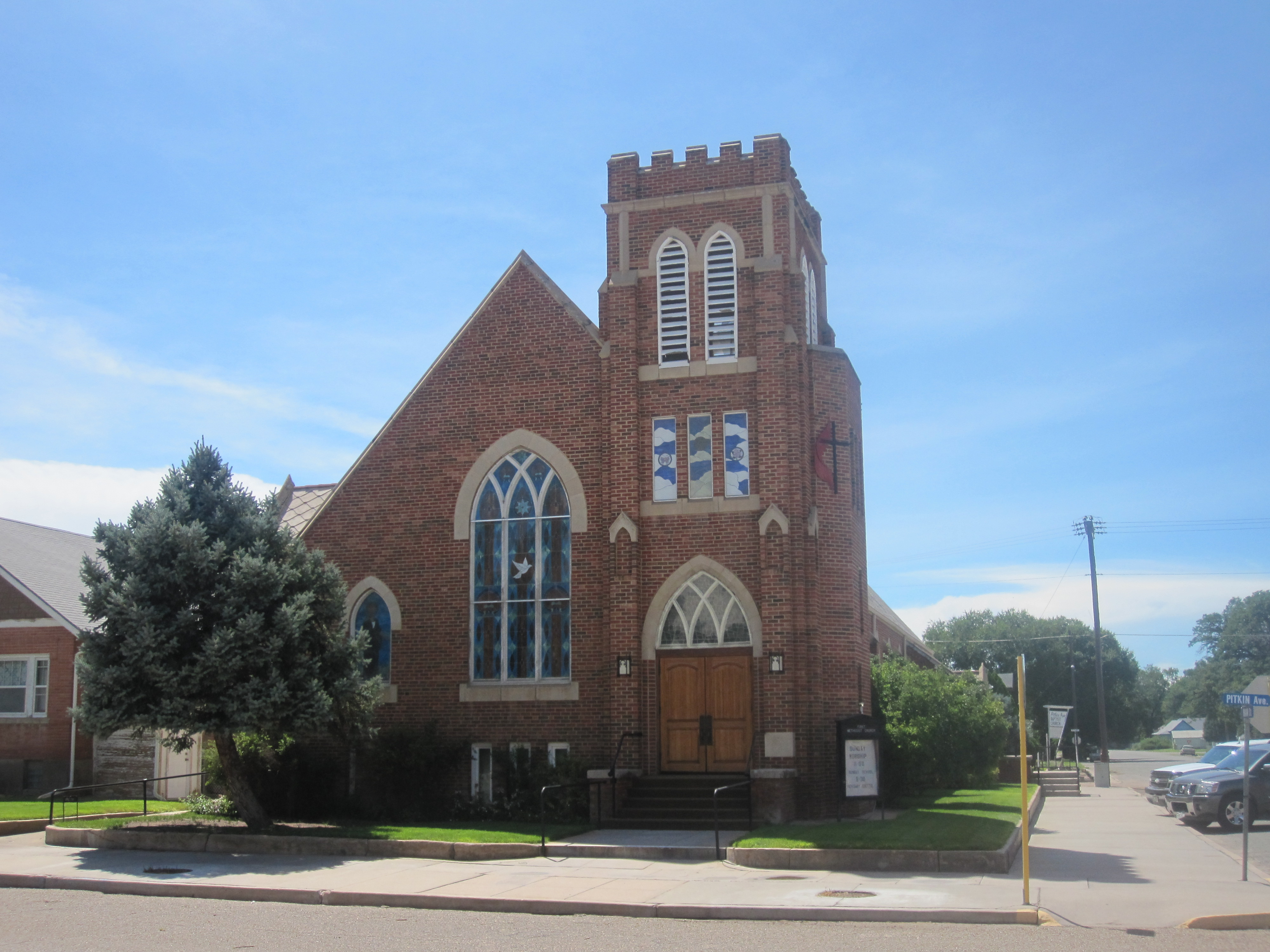 I took photo with Canon camera in Fowler, CO.